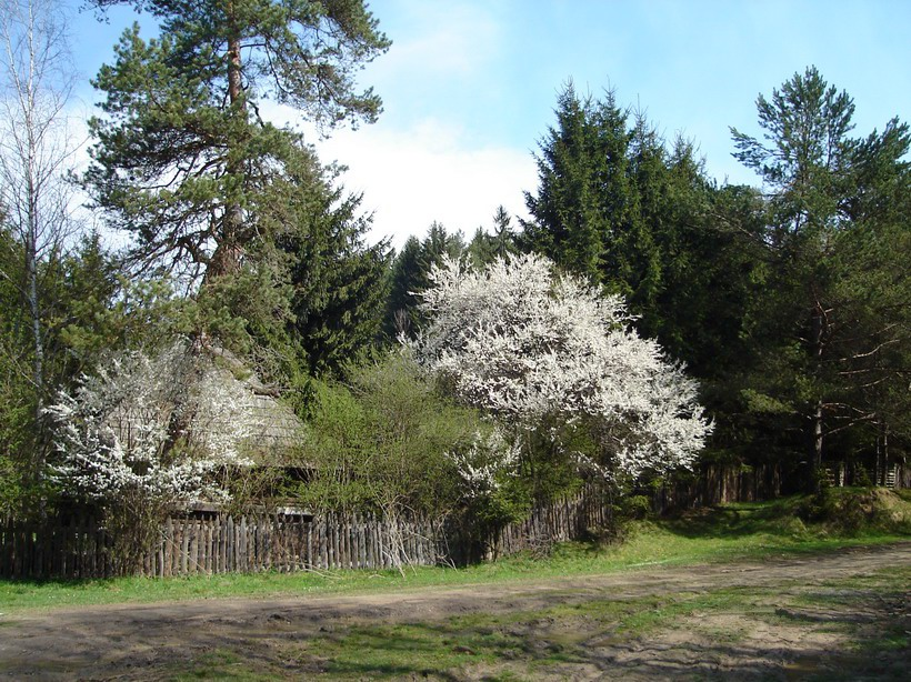 Field near Mereni (hu. Kézdialmás), Covasna County, Transylvania